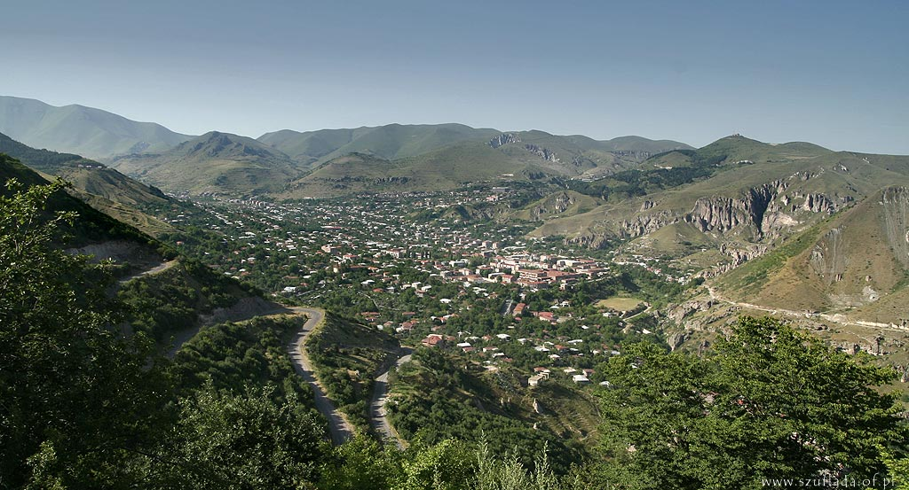 Panorama of the town of Goris in the Syunik province of Armenia.